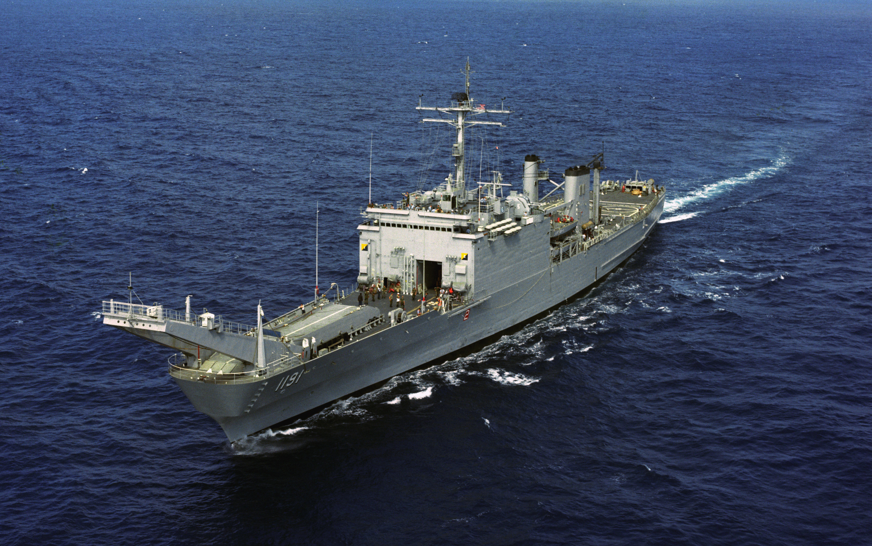 An aerial three-quarter portside view of the US Navy (USN) Newport Class Tank Landing Ship USS RACINE (LST 1191) underway. Exact date shot unknown.